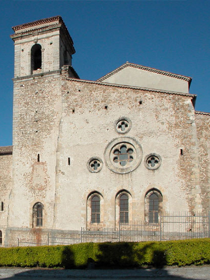 Abbey Florence